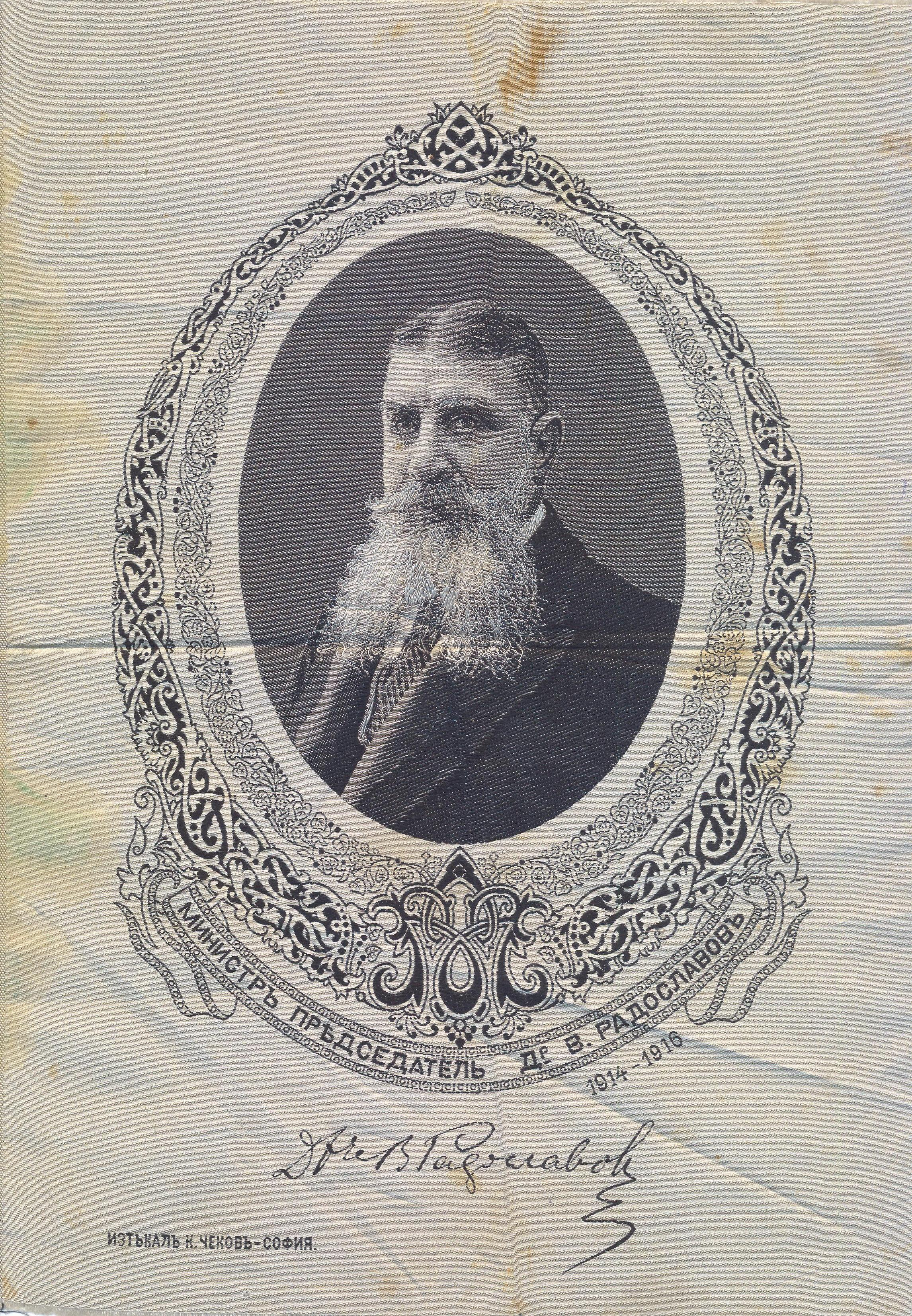 Vasil Radoslavov embroidery